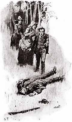 Illustration of the Sherlock Holmes short story The Boscombe Valley Mystery, which appeared in The Strand Magazine in October, 1891. Original caption was "THEY FOUND THE BODY."